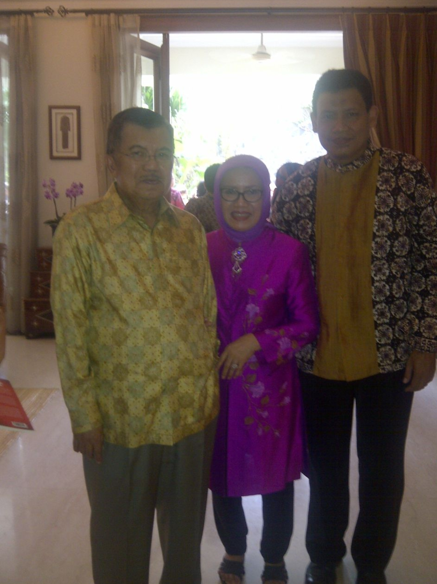 Bambang Santoso Bersama Jusuf Kalla dan Istri JK , Mufidah Kalla pada Acara Ulang Tahun JK di Kediamannya (2013)